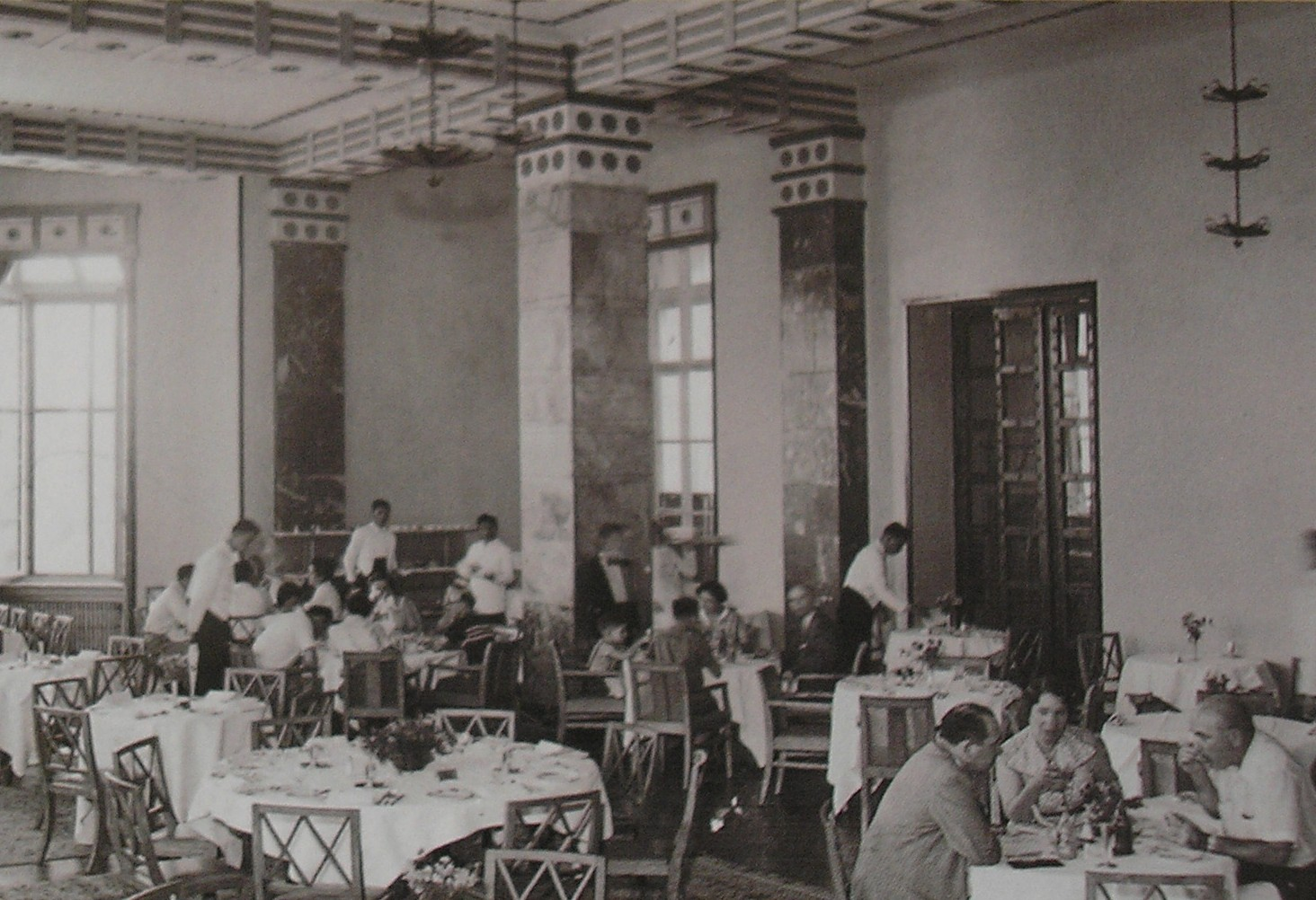 The picture was taken by me from a picture hung at the King David.